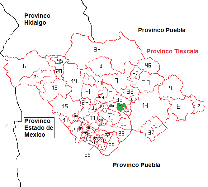 locator map Tlaxcala